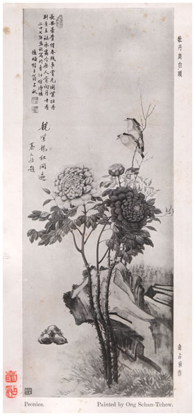 A Painting by Ong Schan Tchow entitled "Peonies" which was bought by the Sultan of Perak, Malaysia, circa 1940